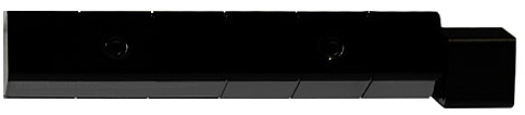 The camera peripheral for the PlayStation 4 console at E3 2013